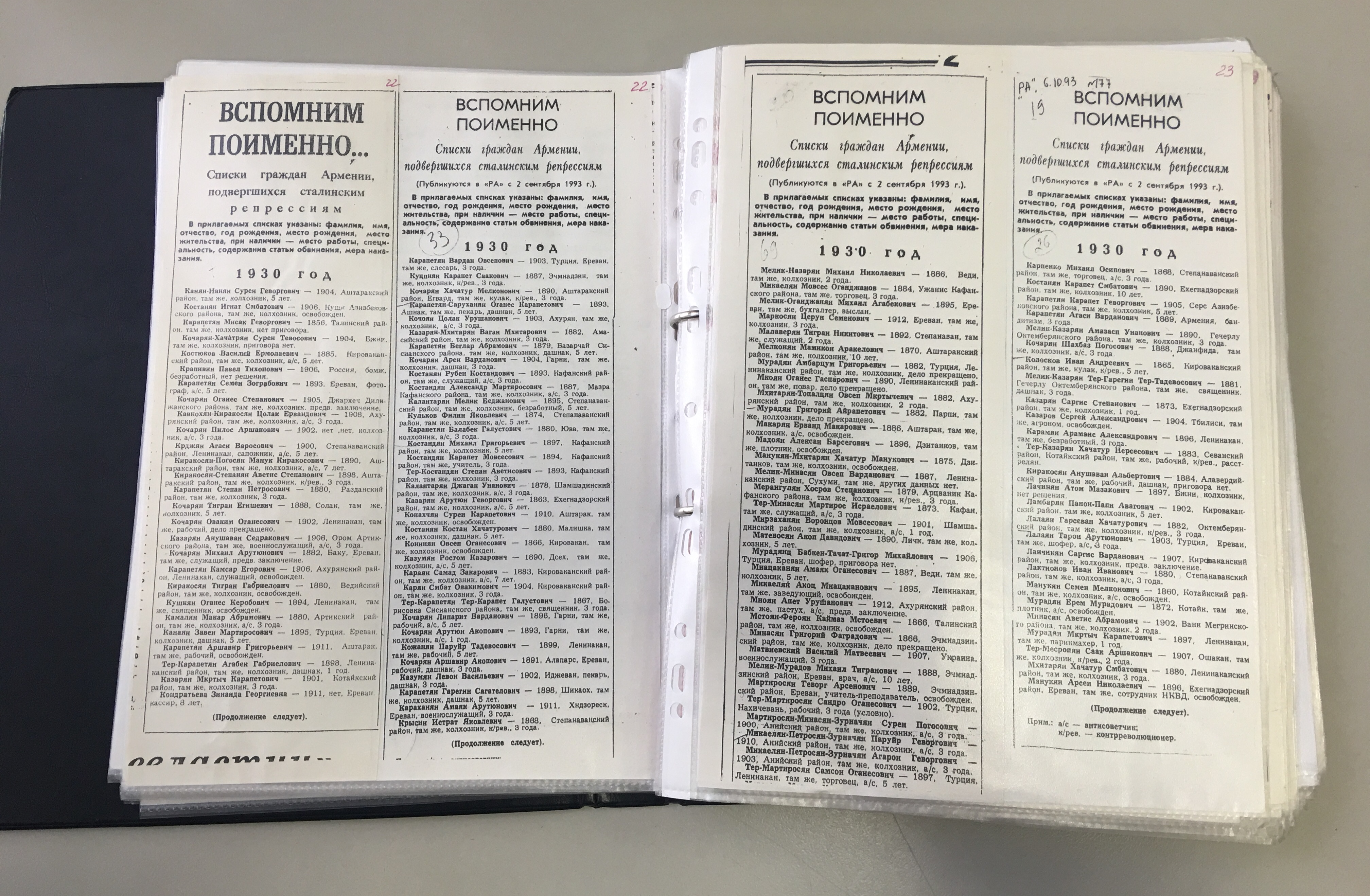 Page from the collection «Lists of citizens of Armenia subjected to Stalinist repressions (1930-1938)», Sakharov Center, Moscow.